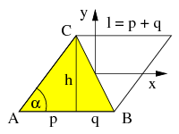 Triangle as a half of a parallelogram